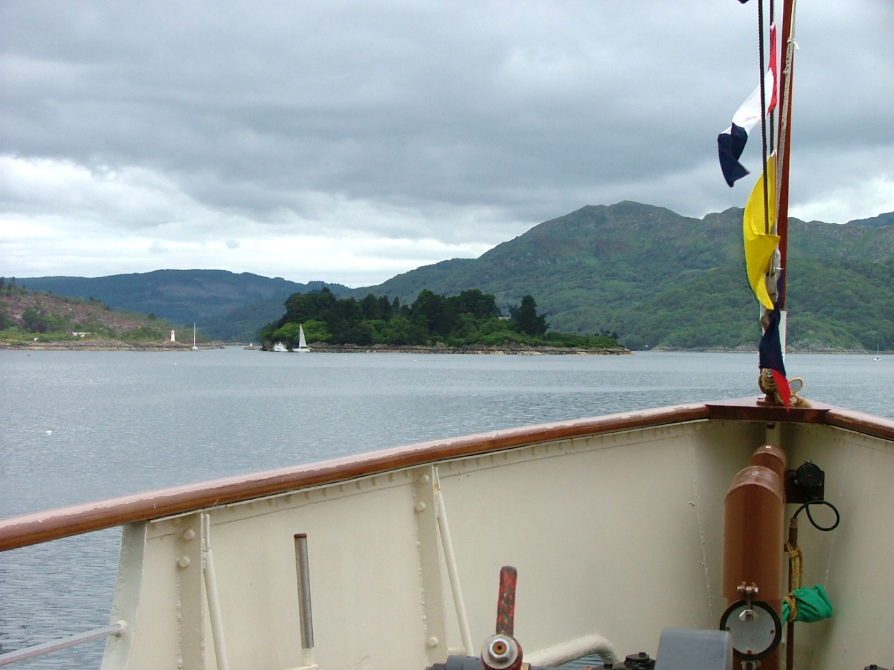 Eilean Dubh photographed in the summer of 2005 from the prow of the PS Waverley.